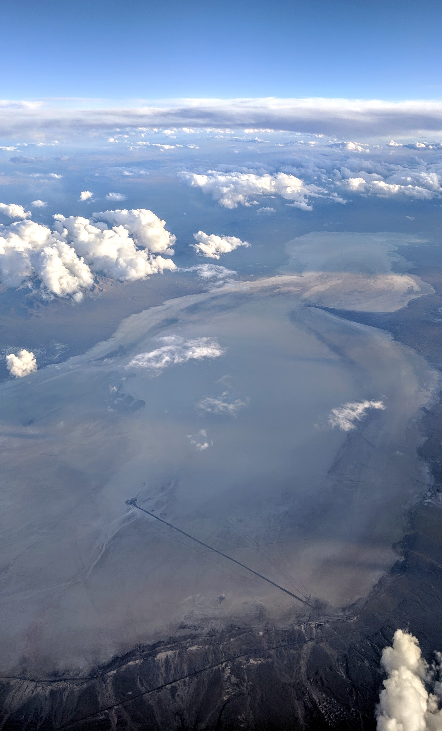 Aerial view of Sevier Lake, Utah, from the north, late afternoon at the autumnal equinox, 2018